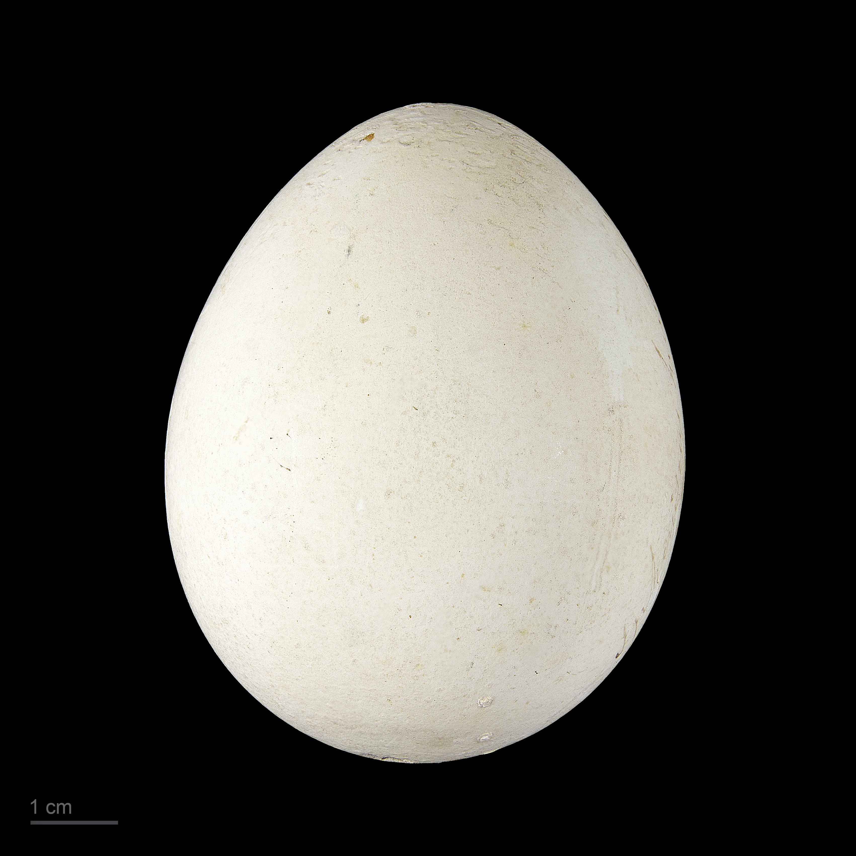 Eggs of Spheniscus humboldti collection of Jacques Perrin de Brichambaut.